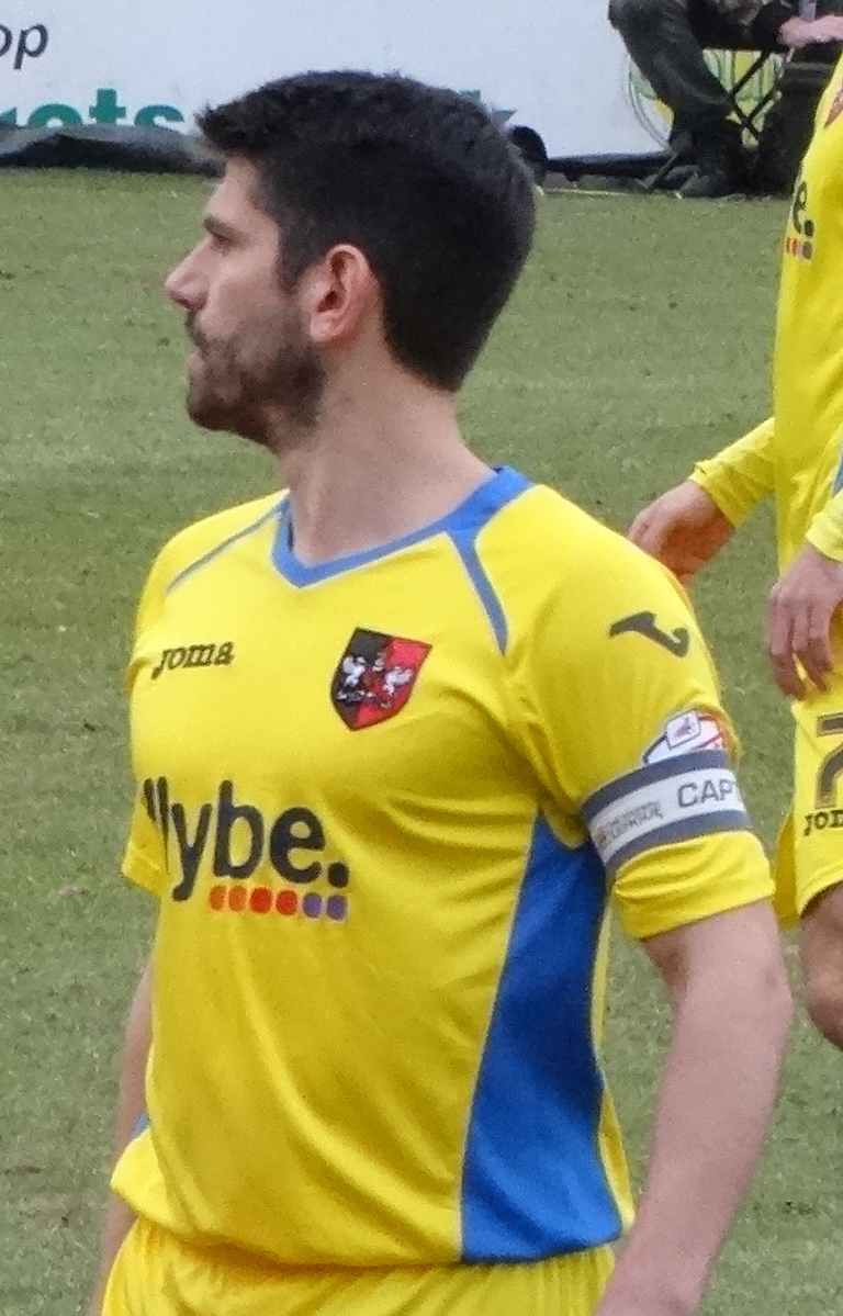 Danny Butterfield playing for Exeter City against York City at Bootham Crescent, York on 28 February 2015